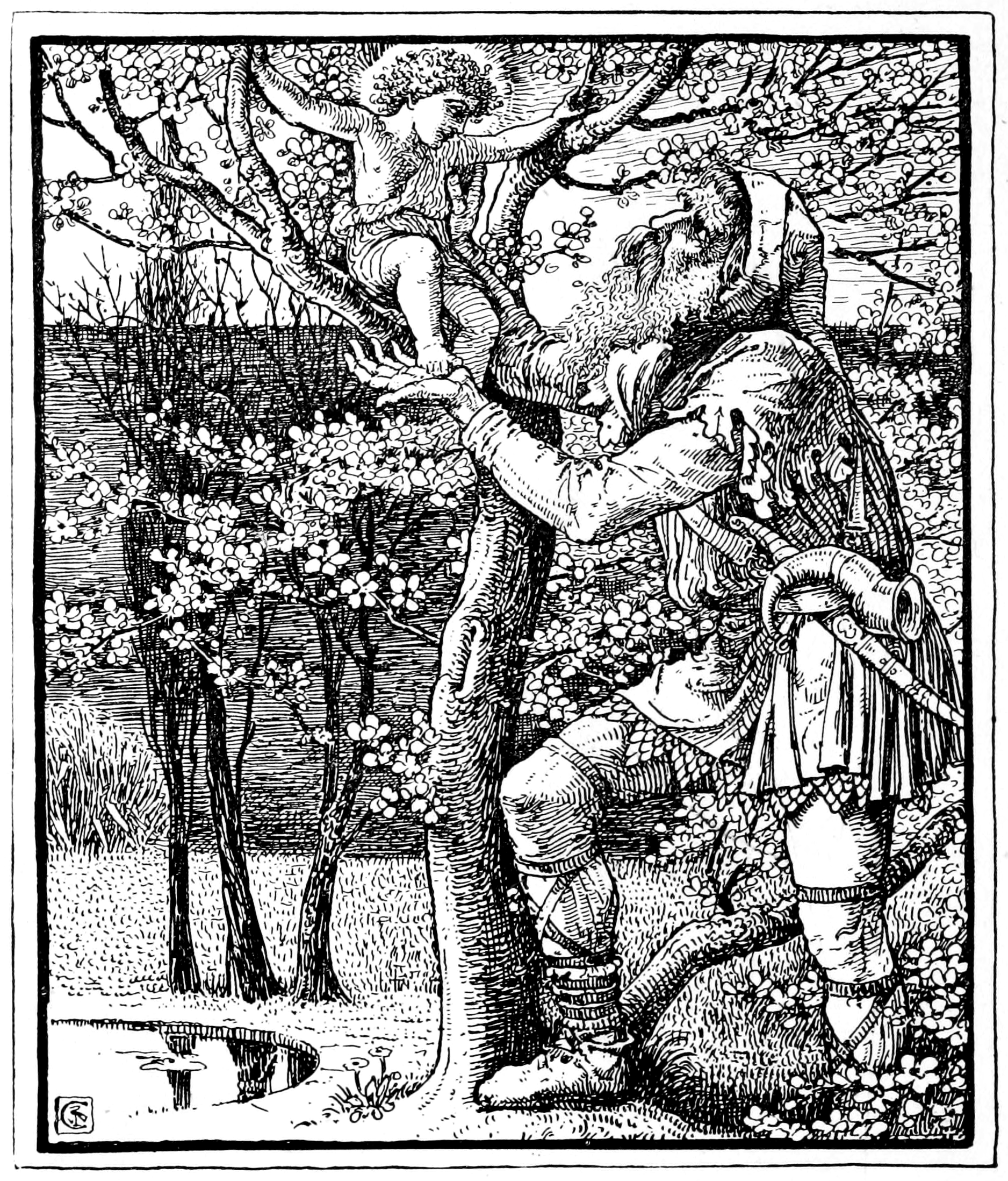 plate illustrating a story "The Selfish Giant" in Wilde's The Happy Prince and Other Tales. London: Nutt. 1st ed. Conversion: jp2 to png; greyscale; black and white point levels.